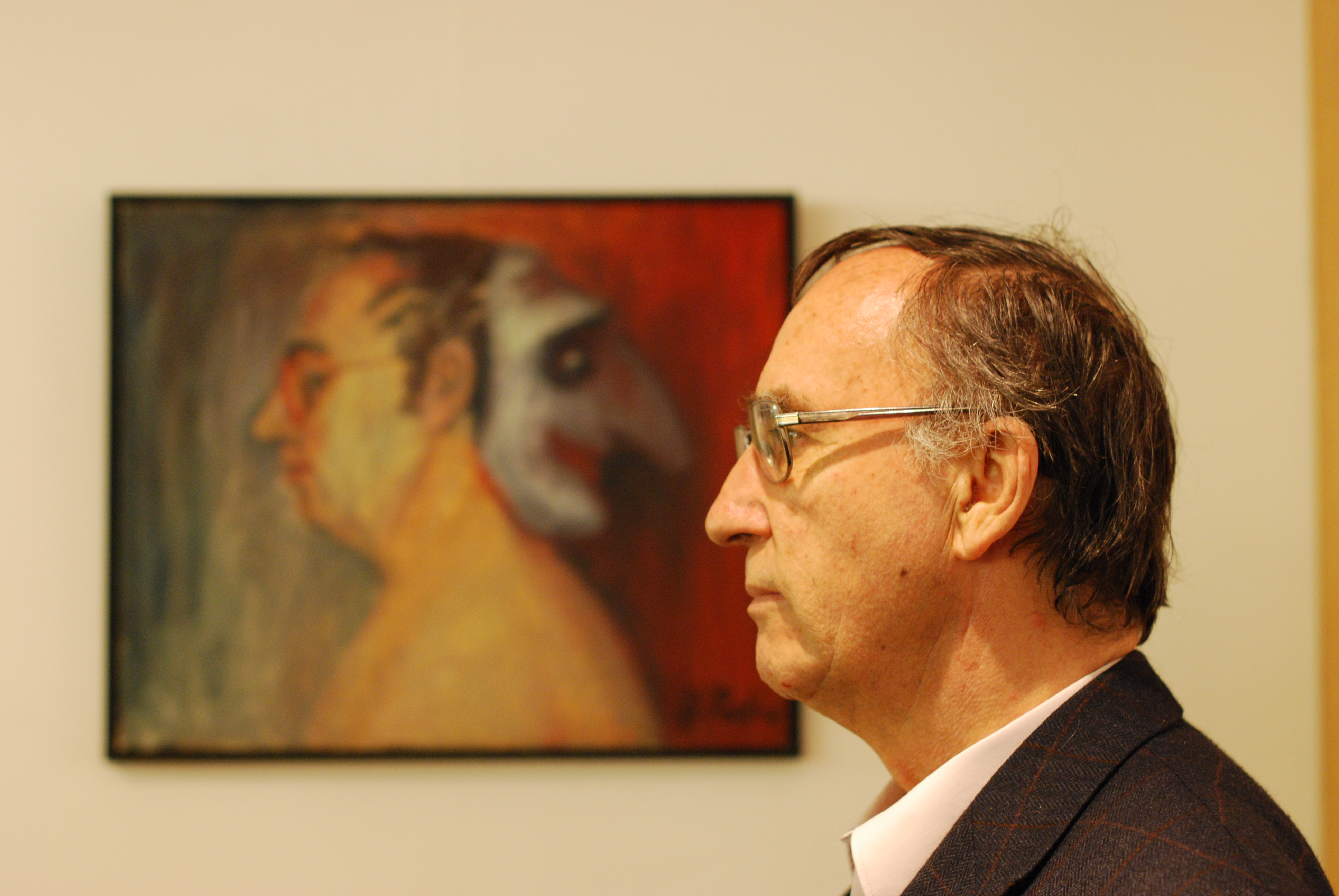 Self Portriat Oil on Canvas Utz Rothe Vienna, Austria